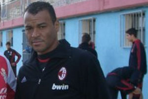 Picture of Cafu.